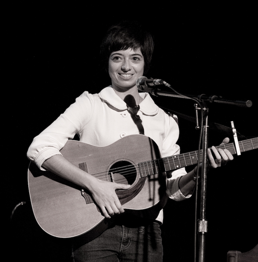 Kate Micucci in 2009 at the Steve Allen theater